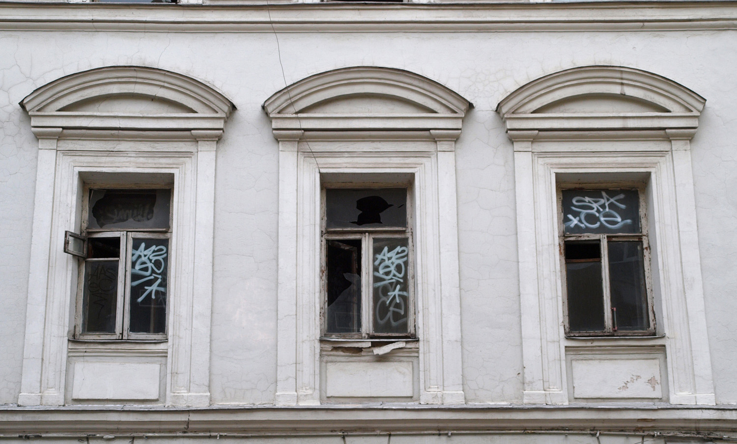 Ruins of Matvey Kazakov's house and private college in Moscow (corner of Bolshoy and Maly Zlatoustinsky Lane)